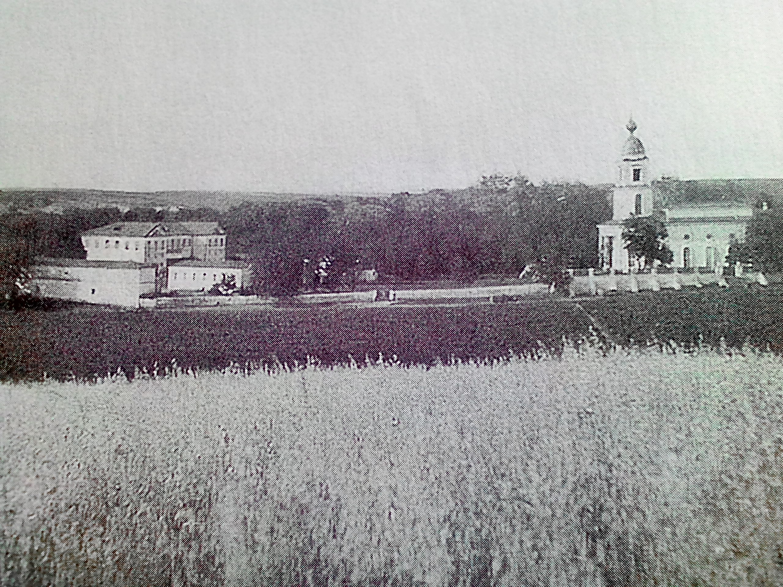 A photocopy of the illustration from the book "Ancient Manors of the Kharkov Province" (Lukomsky, 1917). The photo was taken in 1914. The estate of Golovkin-Khvoshchinsky (formerly Donetsk-Zakharzhevsky). The village of Costyantivka, Zmiiv county, Kharkiv province.